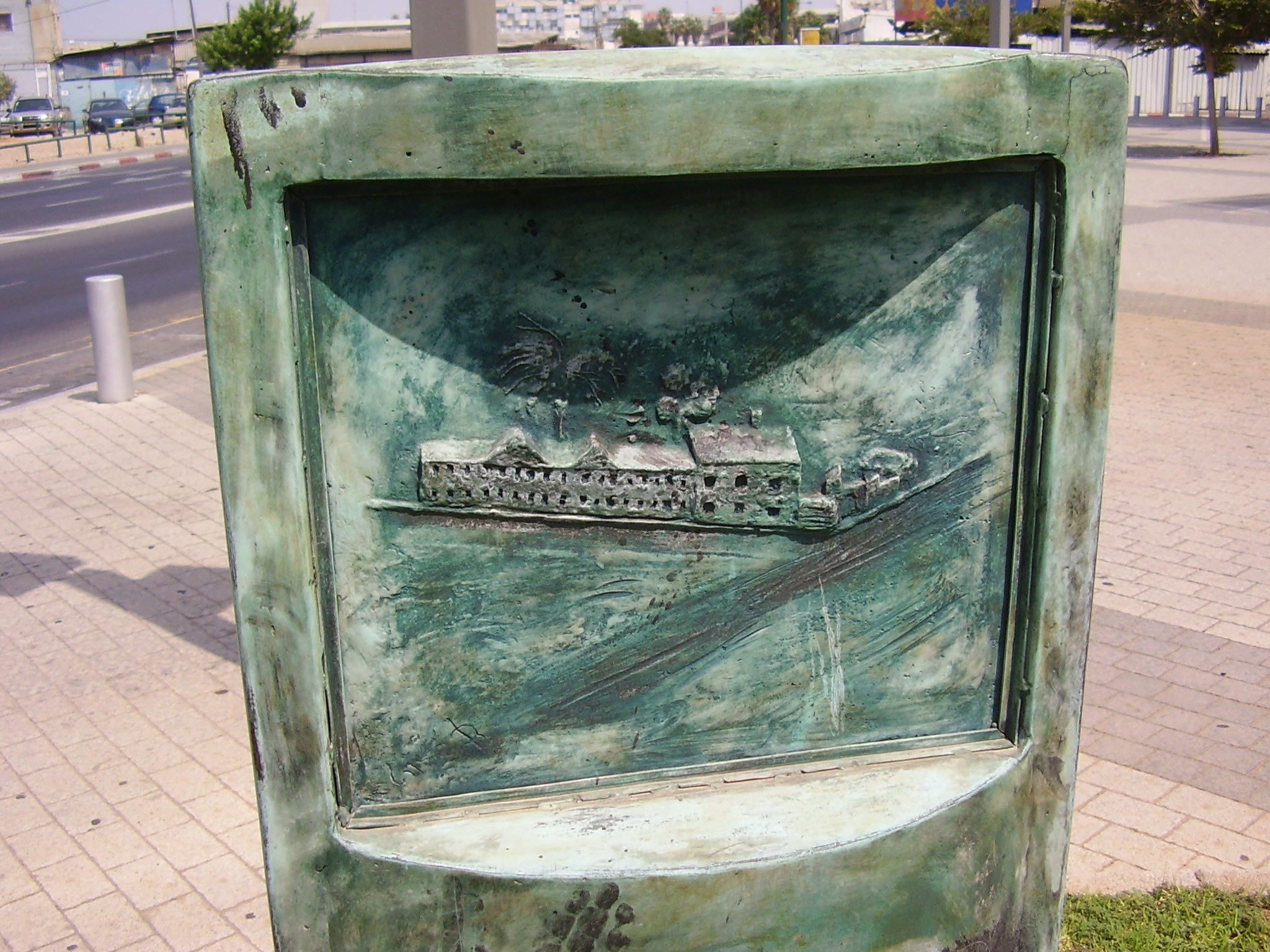 memorial to warsaw compound in tel aviv, in front of the building of Tel Aviv District Israel Police, 18 Shalma road (corner of Derech Kibuts Galuyot)